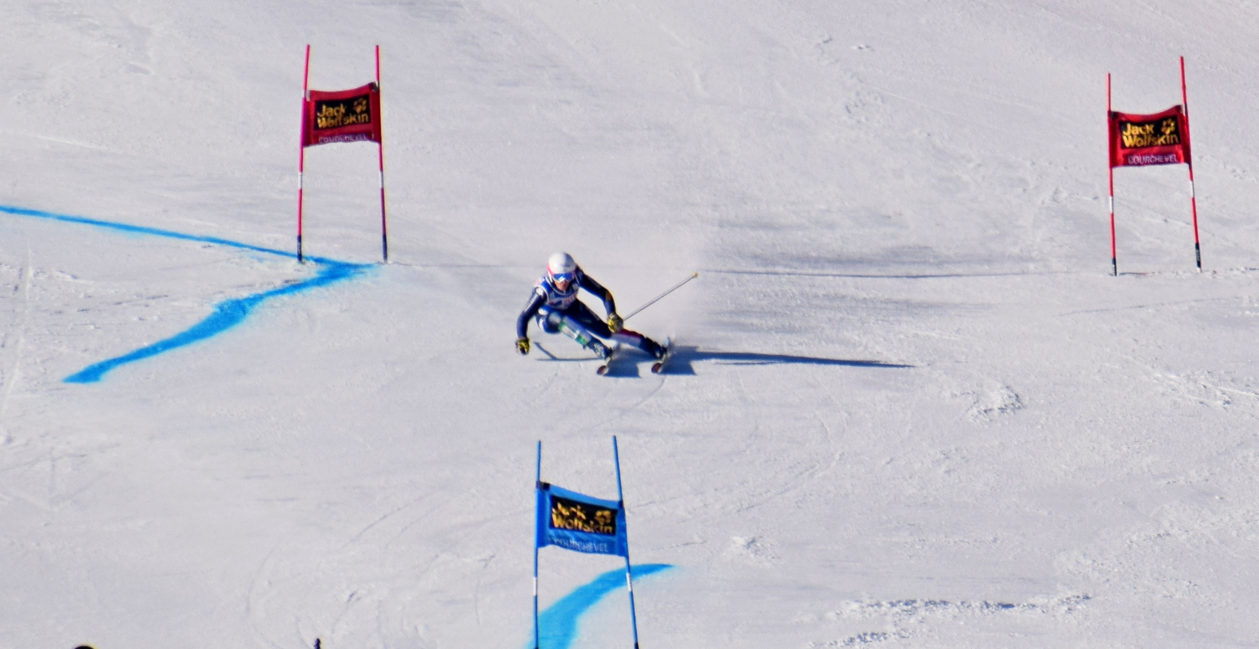 Nadia Fanchini, 1 run of Giant Slalom, Alpine Skiing World Cup of Women in Courchevel, 20 december 2015